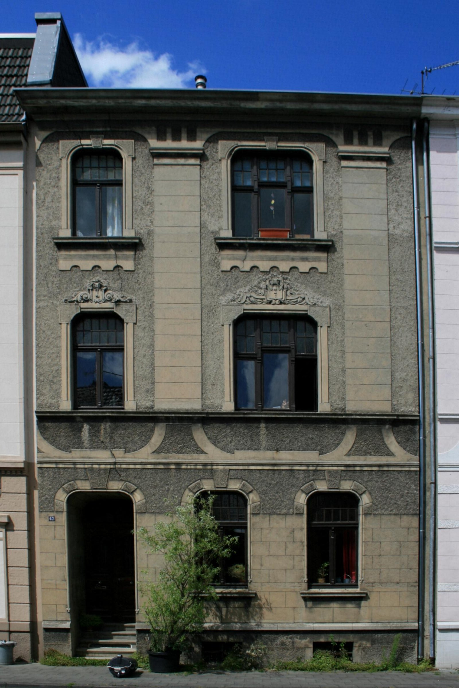 Cultural heritage monument No. B 075 in Mönchengladbach